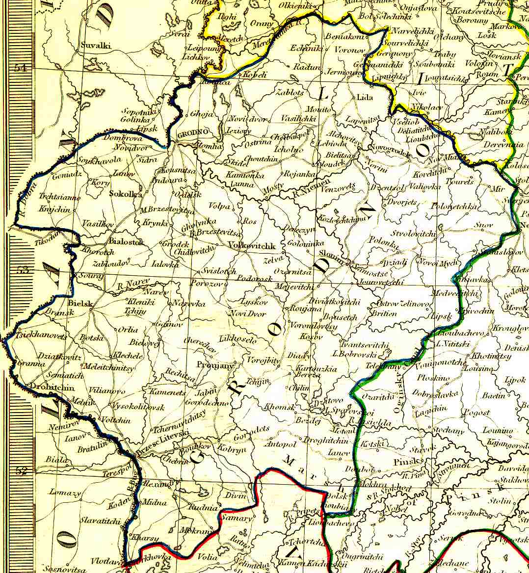 1834 map of Grodno Governorate (longitude from Ferro meridian. 17°40'W)